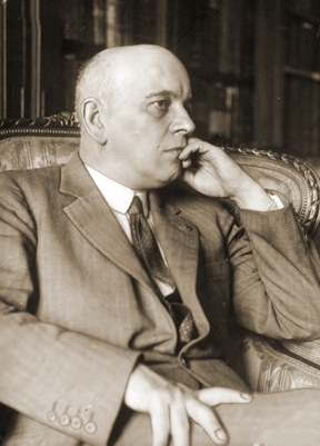 Franciszek Jan Pułaski (1875-1956) – Polish historian and diplomat, direktor of Polish Library in Paris